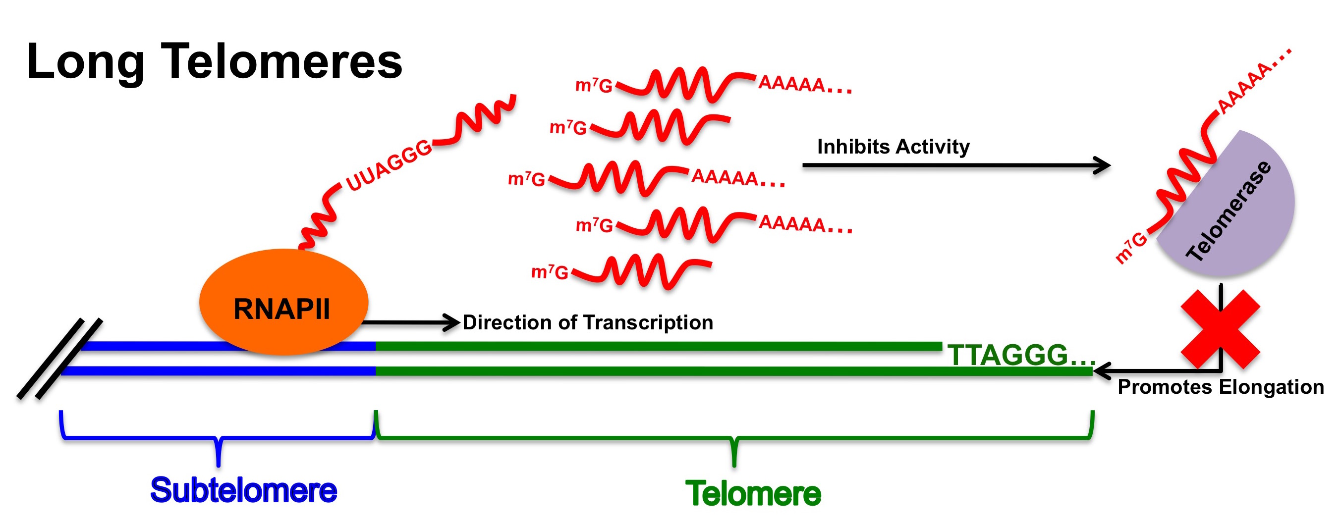 At long telomeres, abundance of TERRA transcription allows TERRA to associate with as a direct inhibitor of telomerase activity through base-pairing to the complementary RNA template region of telomerase, thereby preventing further telomere elongation